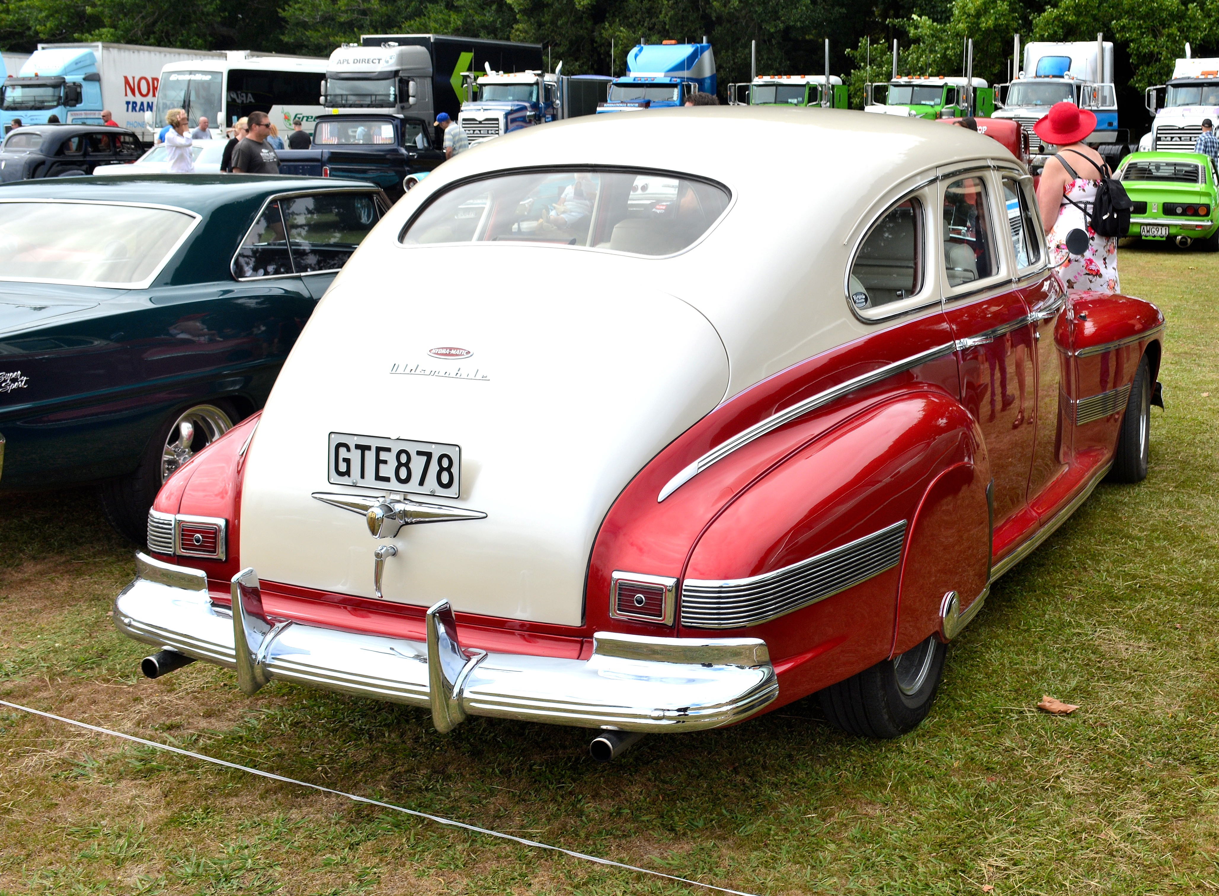 At Morrinsville 2017,New Zealand